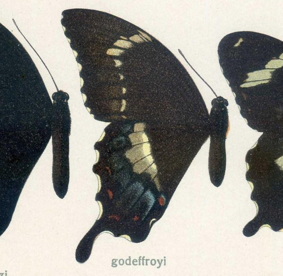 Godeffroy's Swallowtail, upperwing